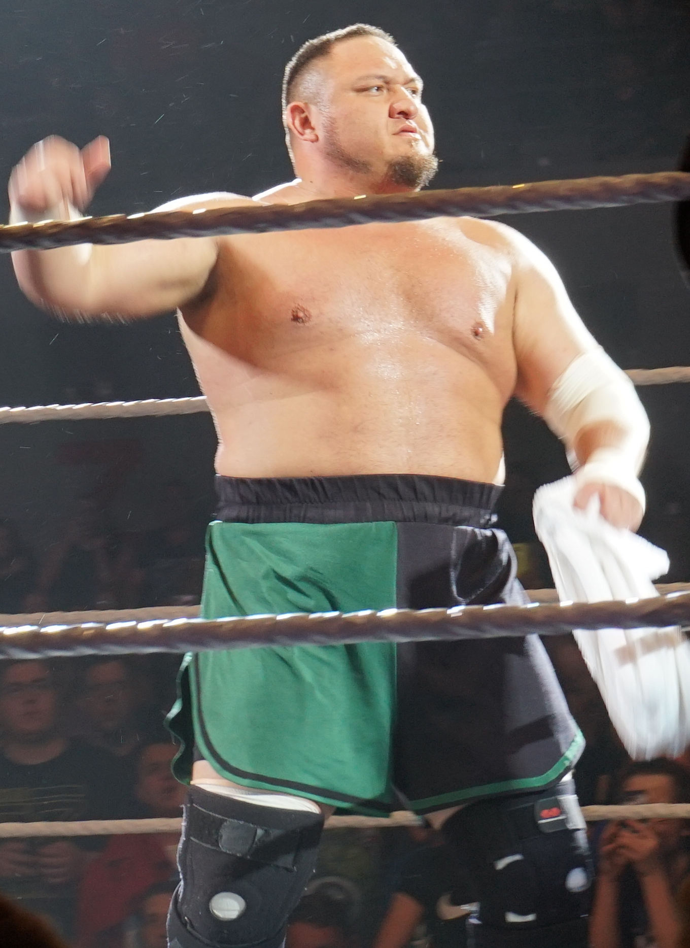 Roman Reigns & Seth Rollins defeat Bray Wyatt & Samoa Joe ( Le vendredi 12 mai, la WWE Live Tour fera escale au Country Hall a Liege pour le spectacle de catch de l'annee! Au programme: des duels impitoyables et des rencontres captivantes entre les meilleures equipes et les plus grands rivaux. )